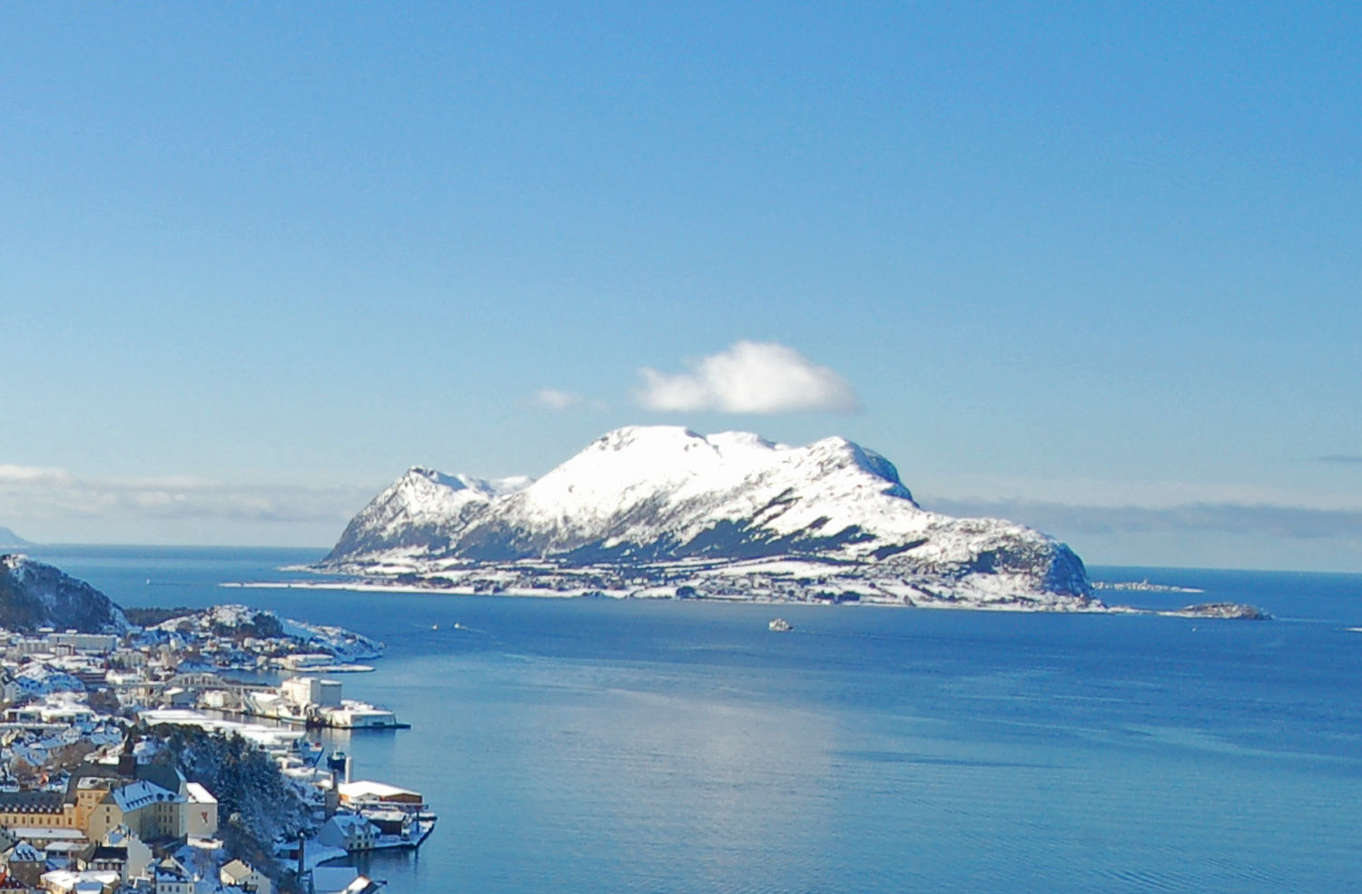 The isle of Godøya, seen from the mountain Aksla in Ålesund.